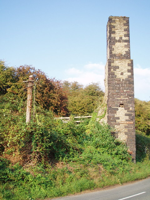 Corner of Crew's Hole Road and Trooper's Hill Remains of Crew's Hole industrial past